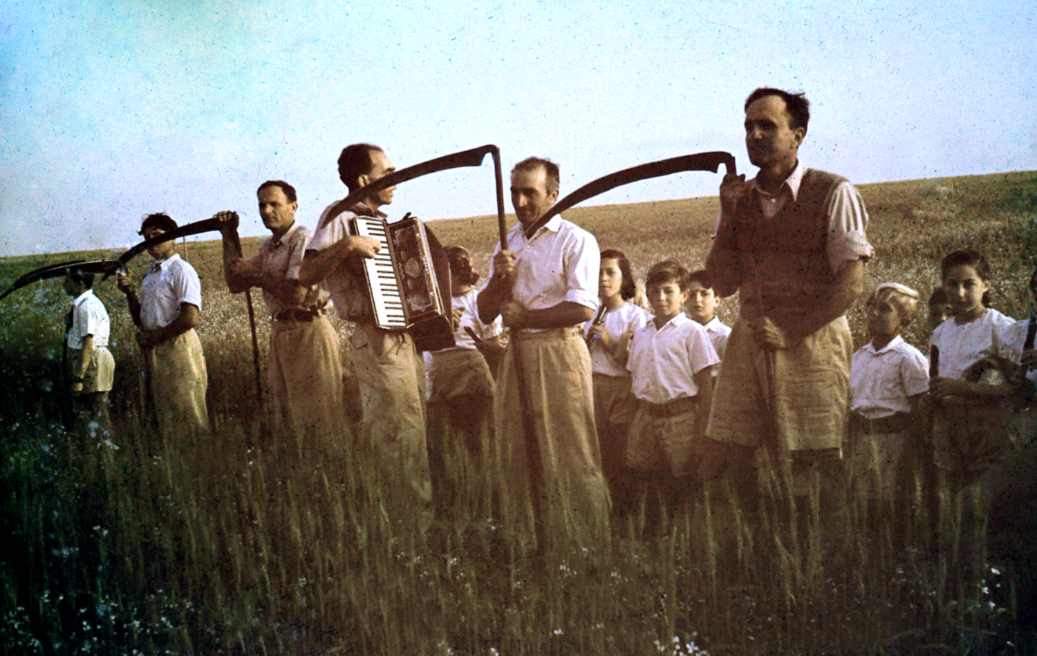 Members with scythes at harvest of the Omer.